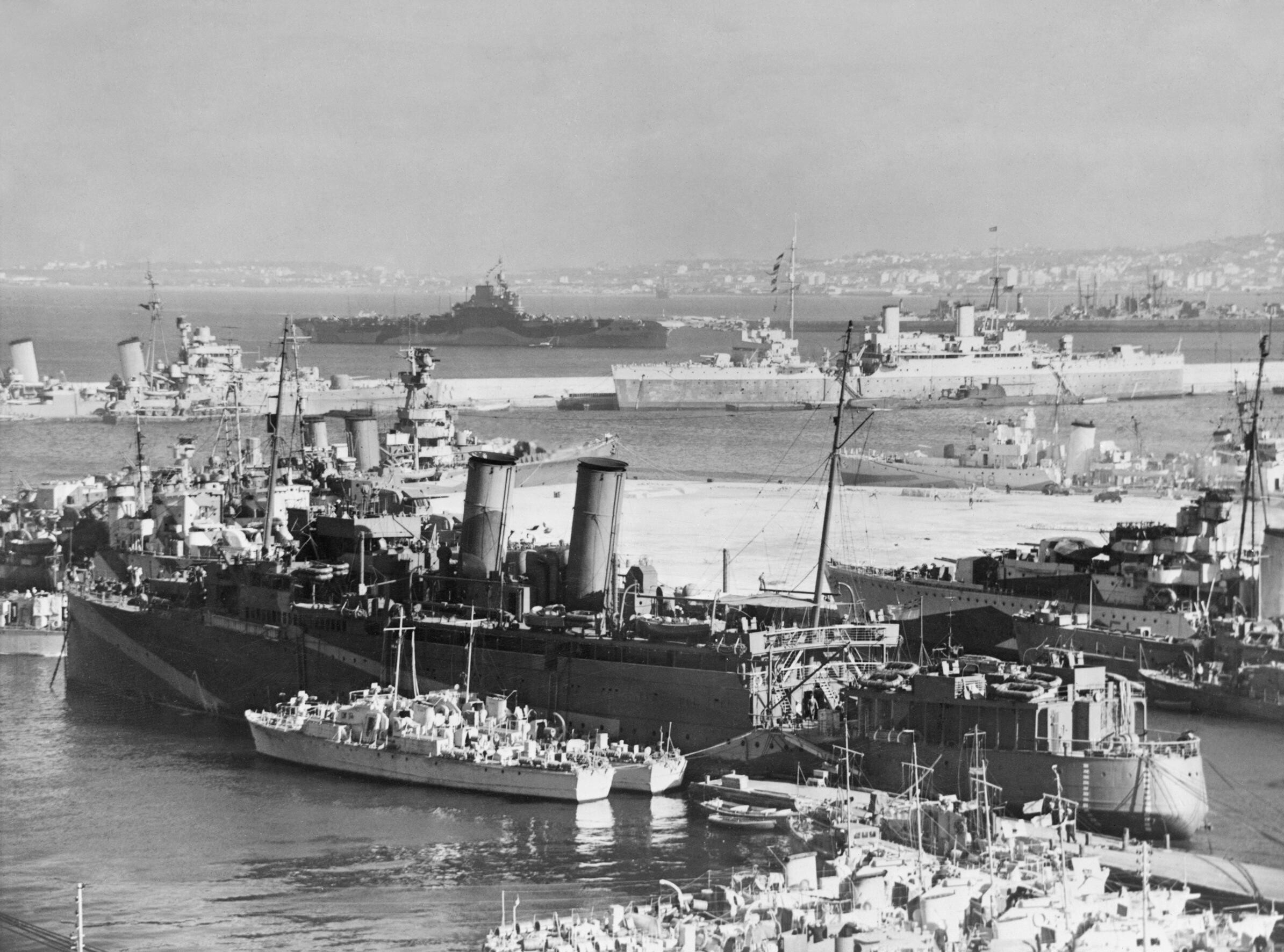 The Royal Navy in the Second World War British warships in Algiers Harbour. HMS Formidable (background) with HMS Dido (left) and HMS Maidstone (right) against the centre jetty. HMS Vienna is centre foreground, and above her funnels is HMS Carlisle. HMS Ashanti lies next to HMS Vienna. Above Ashanti can be seen HMS Oakley.